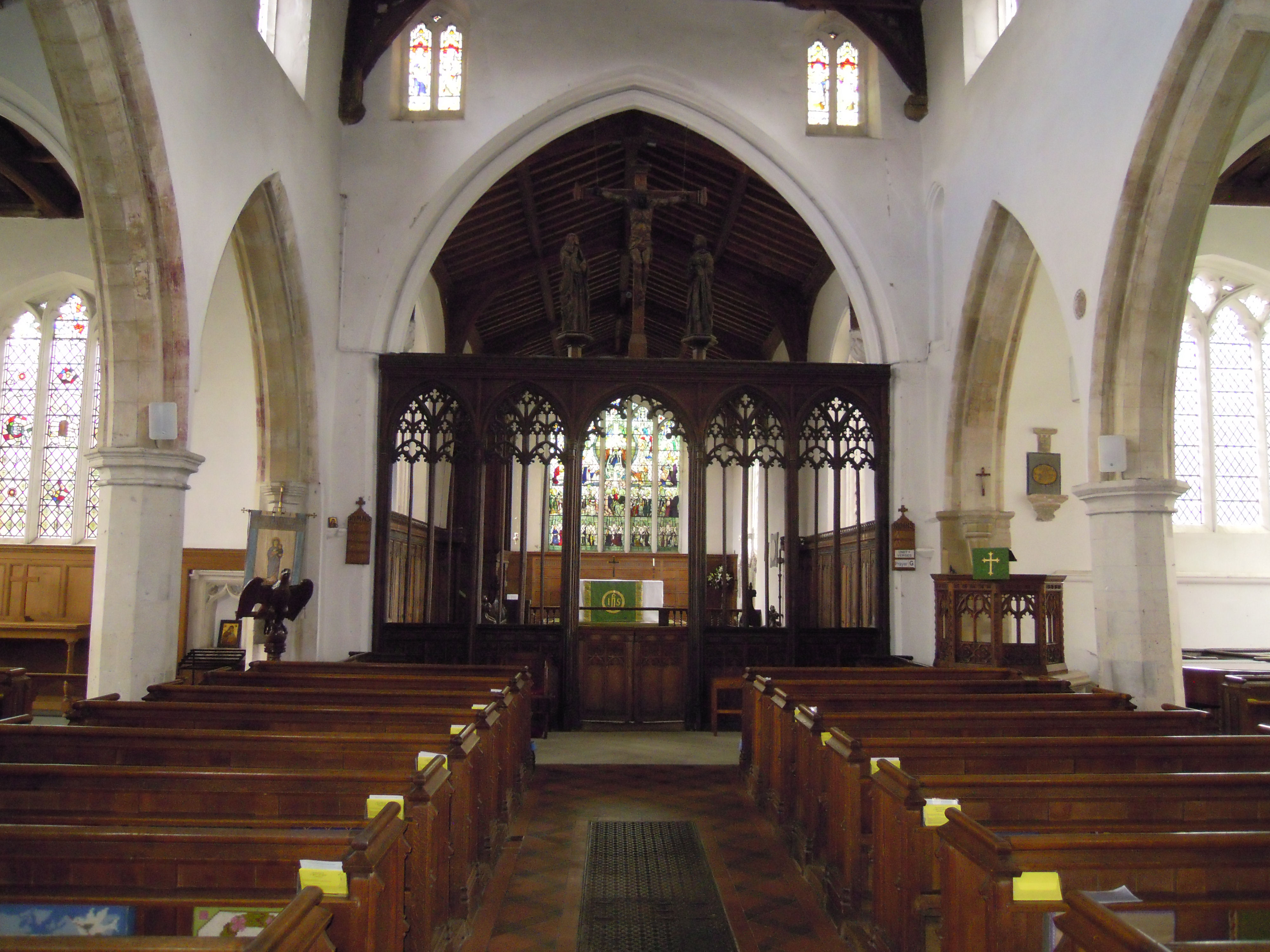 View up the nave towards the rood screen in the Church of St Mary the Virgin in Gamlingay in Cambridgeshire